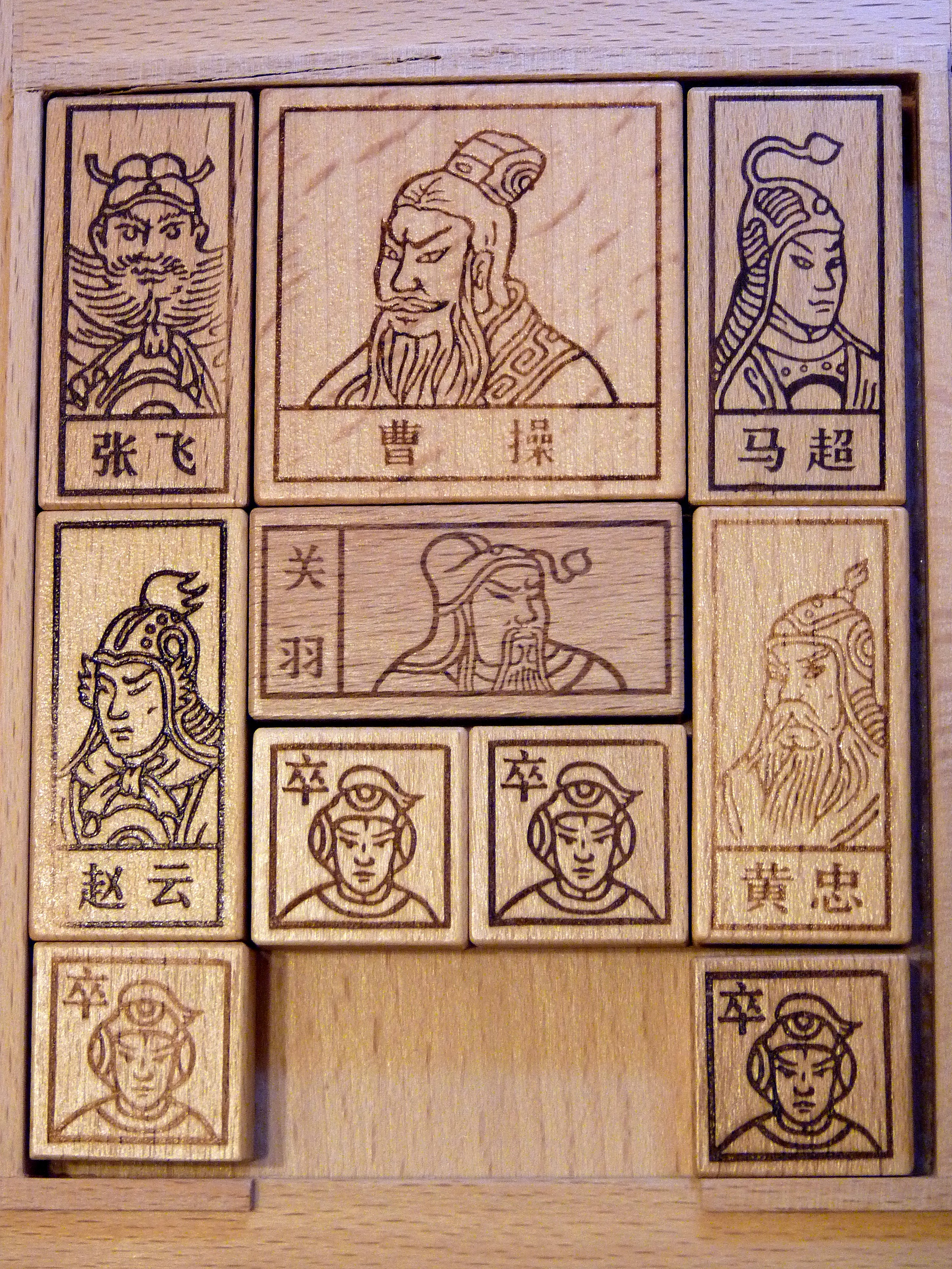 Wooden board game, Hua Rong Dao, is the Chinese variation of Klotski.jpg